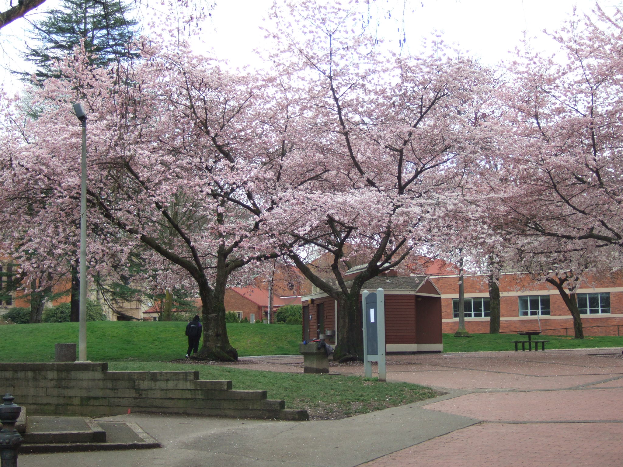 Couch Park in Portland, Oregon.